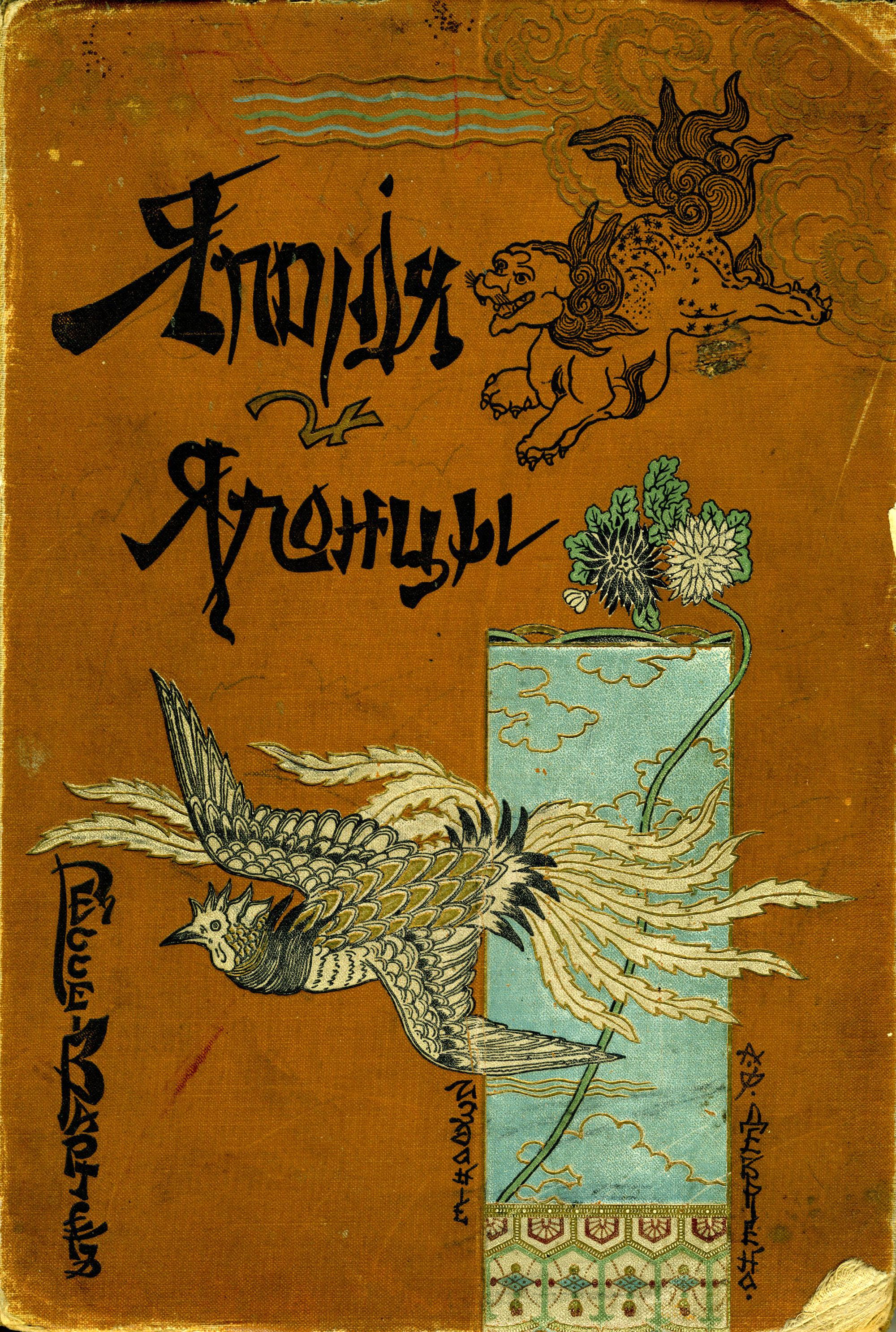 Cover of the book "Japan And Japanese" (1902)